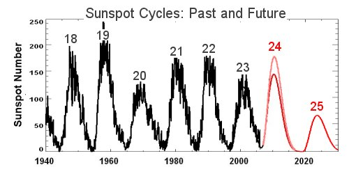 Prediction of strength of solar maximum around 2012 (24th cycle).